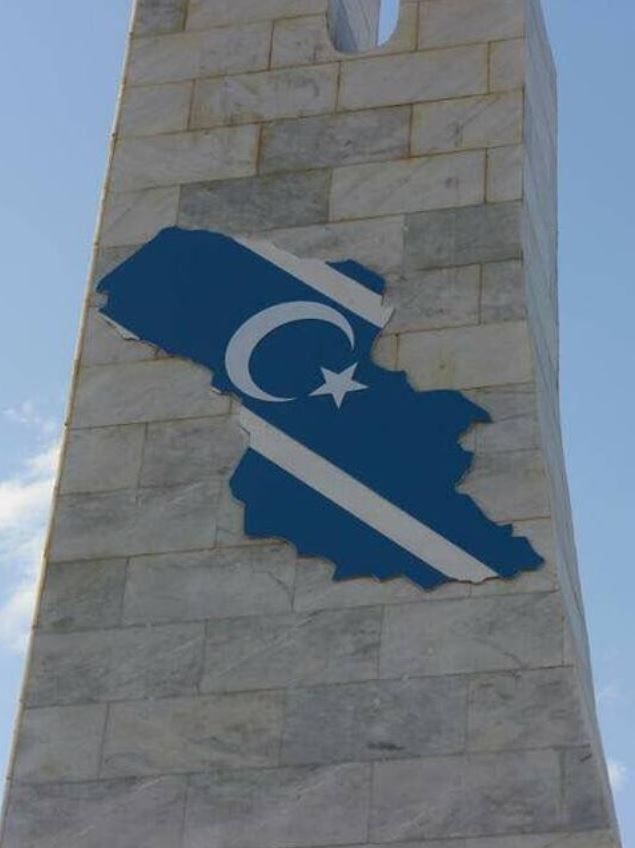 Turkmeneli map on a monument in Altun Kopru